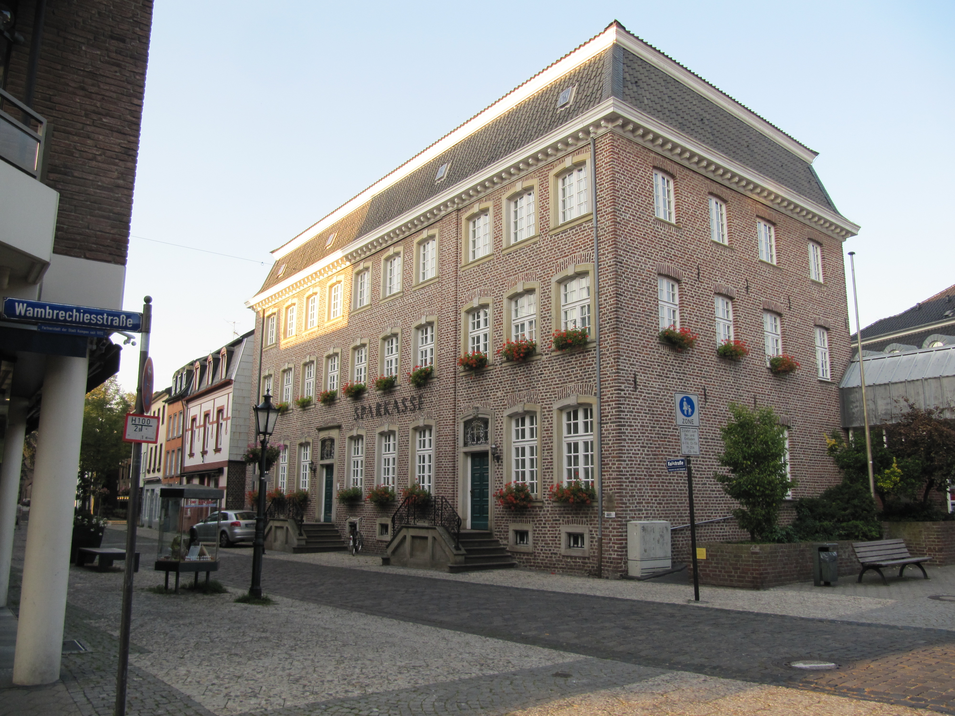 Kempen, district of Viersen, North Rhine-Westphalia, Germany.